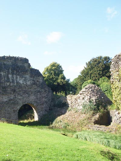 Lochmaben Castle, Dumfries and Galloway, Scotland. Photograph taken 7 September 2007.